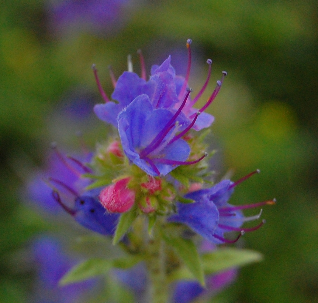 Blueweed (Echium vulgare), also known as Viper's Bugloss. West Alexander, PA, seems to love a dry sandy location...